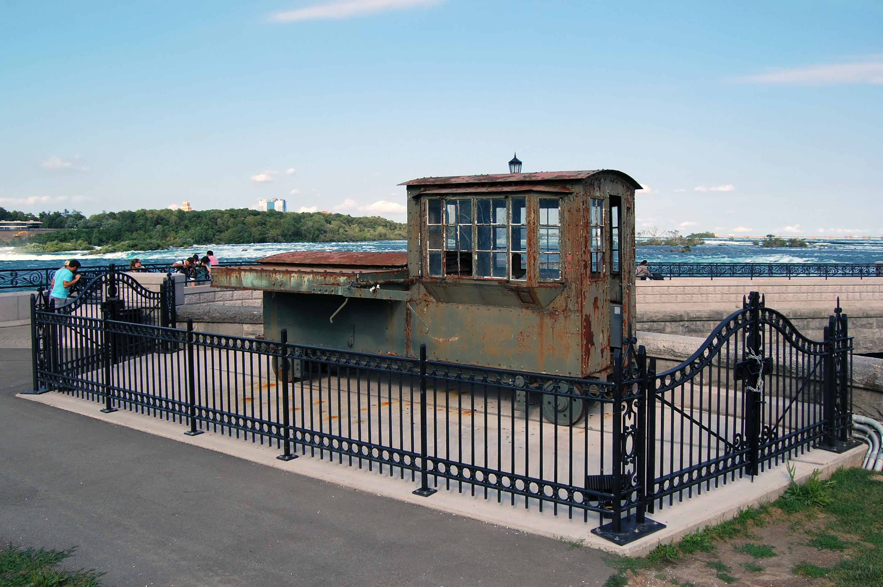 The Ice Drag, an electrically powered locomotive weighing about 16 metric tonnes (35,000 pounds), once played an important role in helping remove the ice before it could enter the forebay in front of the former Canadian Niagara Powerhouse building. In 2013, it was relocated next to a pedestrian walkway near the Canadian Niagara Power Bridge on the Niagara Pkwy.